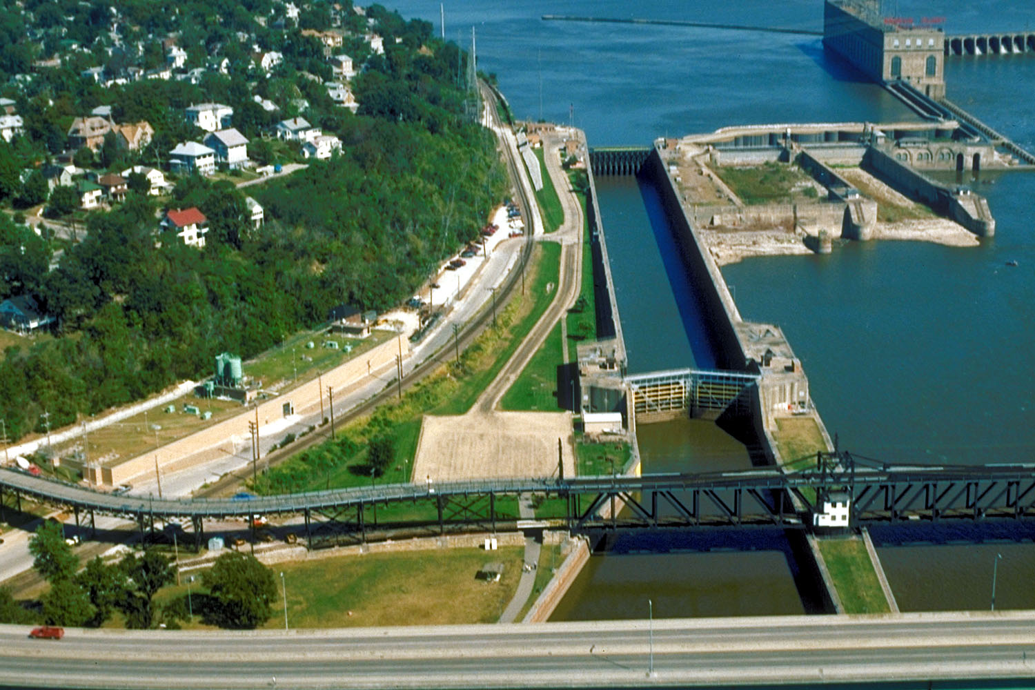 Lock and Dam Number 19 on the Mississippi River at Keokuk, Iowa, USA. The old Keokuk Rail Bridge is visible in the foreground. The Keokuk-Hamilton Bridge runs across the extreme bottom of the picture. View is from the Iowa side of the river, looking upriver to the northeast.